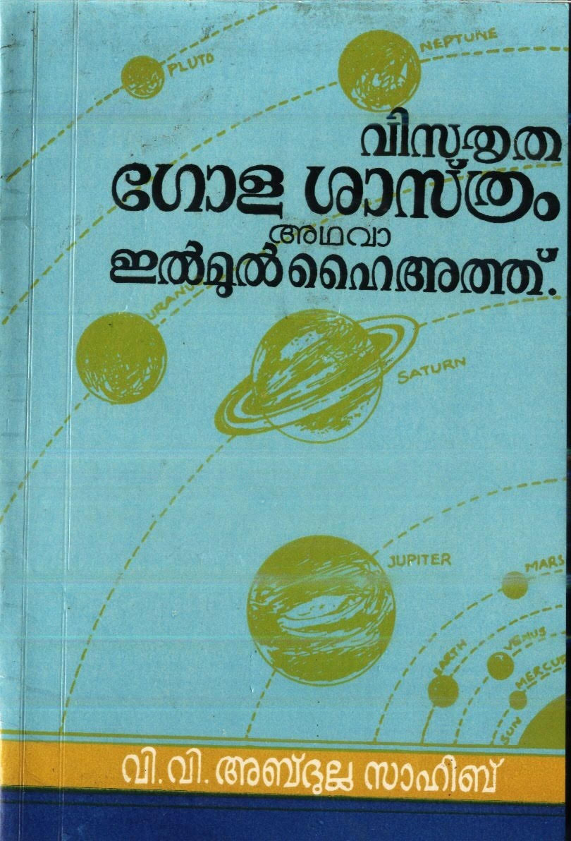 V.V.Abdullah.Sahib-Visthritha Golashasthram